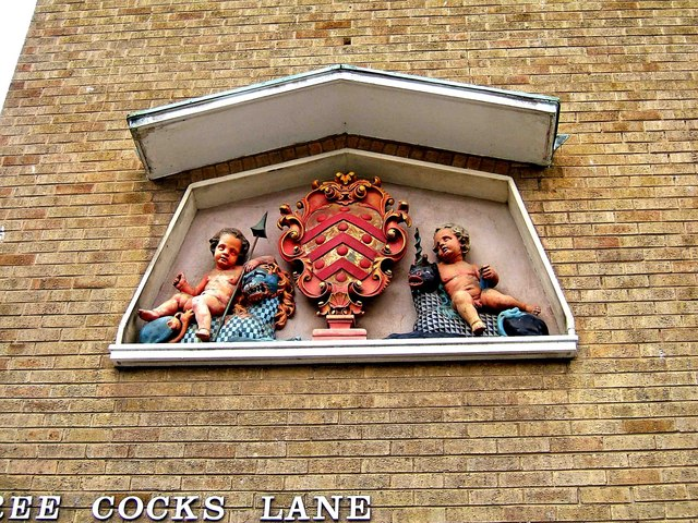 Coat of arms of the City of Gloucester. Sculpture of cherubs in Three Cocks Lane This sculpture is on the end of a modern building, which is on the corner of Westgate Street and Three Cocks Lane. The sculpture of the cherubs was actually carved in the 18th century to adorn the pediment of the former Booth's Hall. That building was demolished in 1957, but the sculpture was moved here.